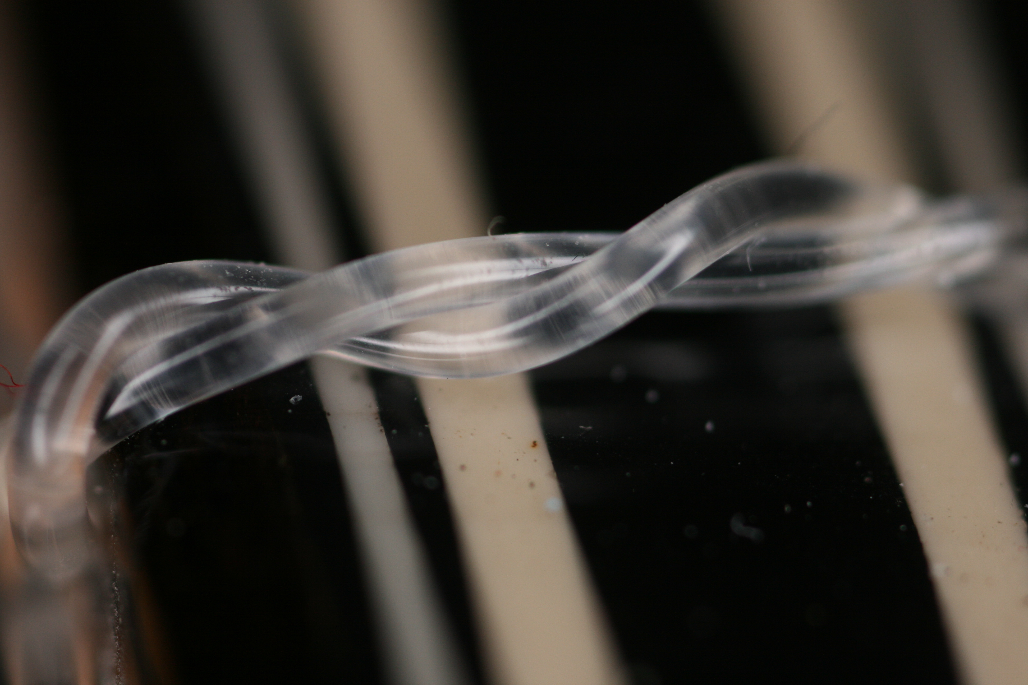 guitar strings classical guitar